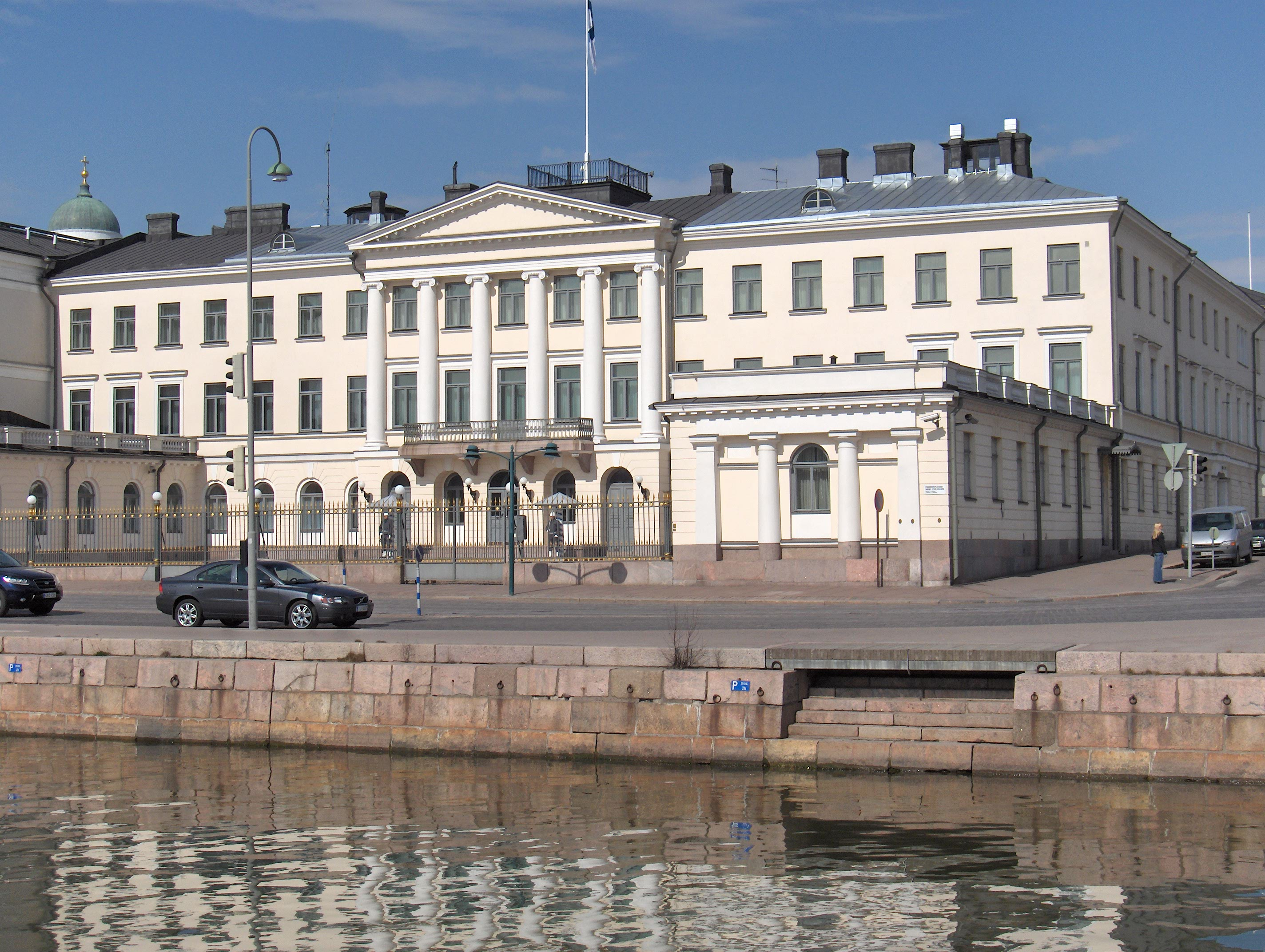 The Presidential Palace, Helsinki, Finland